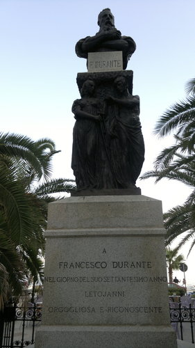 This bronze statue of Francesco Durante can be seen in "Piazza Durante" in Letojanni (Messina). It's a work of Ettore Ximenes, a sculptor from Palermo who was a friend of Durante himself. The statue was unveiled in May 1923 during a solemn cerimony in honour of Durante.